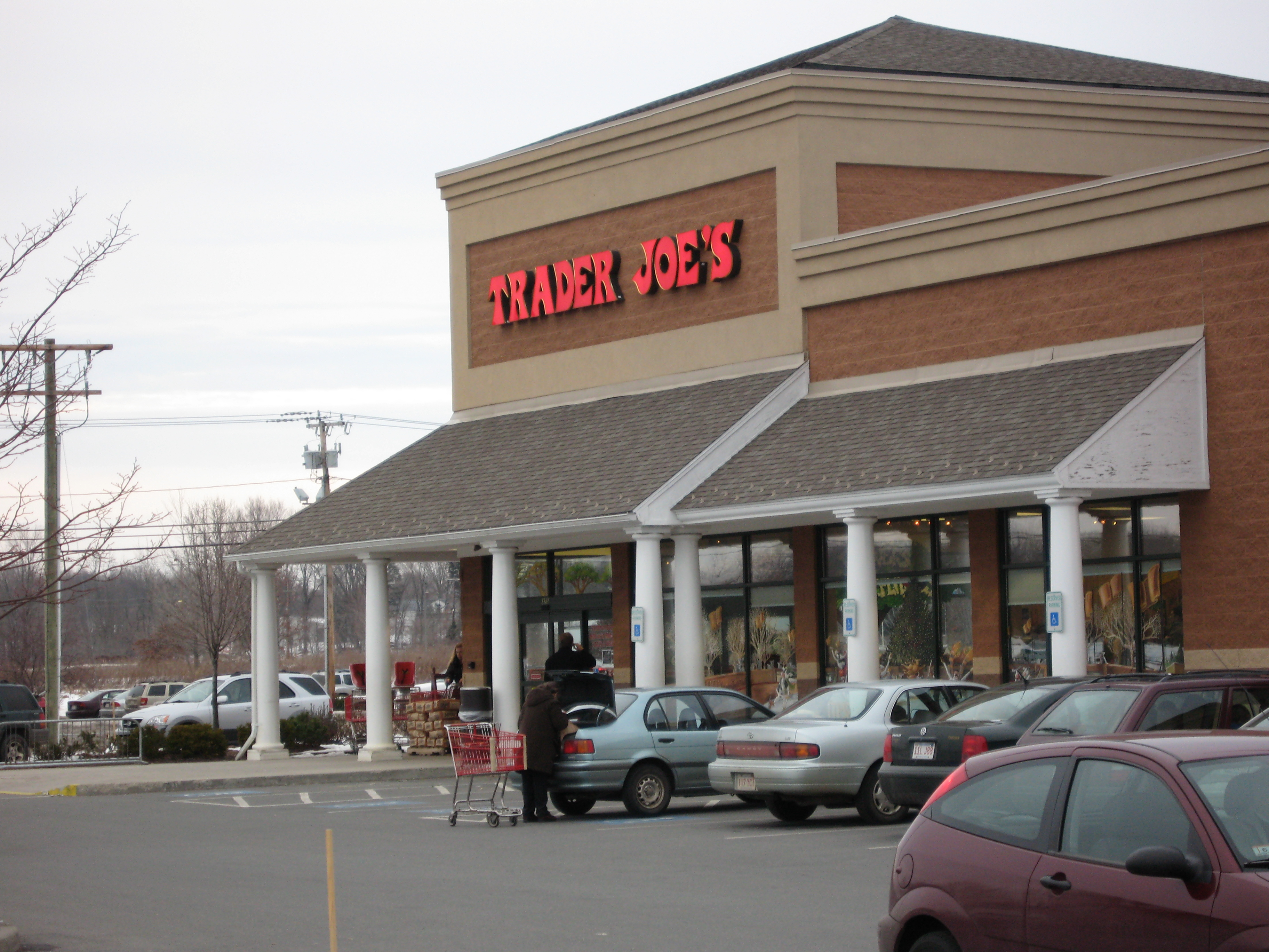 Trader Joe's next to the Hampshire Mall Hadley Massachusetts.